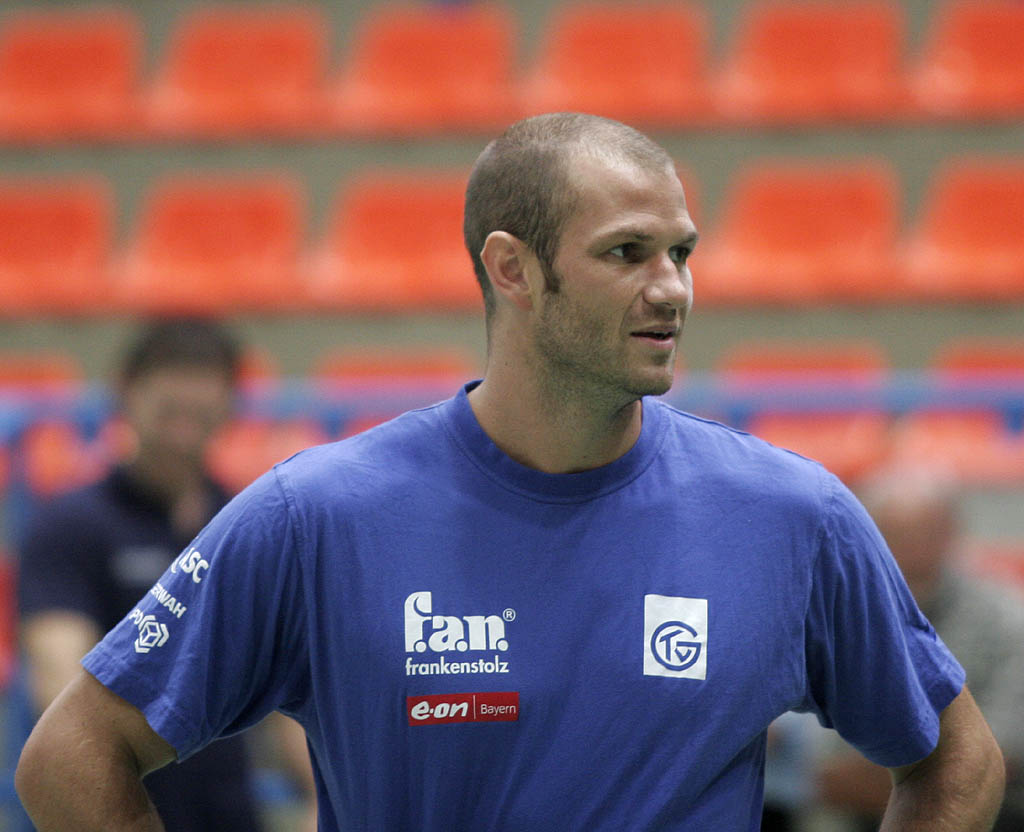 Heiko Grimm, handball player of TV Großwallstadt, on September 1st, 2007 in Aschaffenburg (Germany), prior the game TV Großwallstadt - THW Kiel